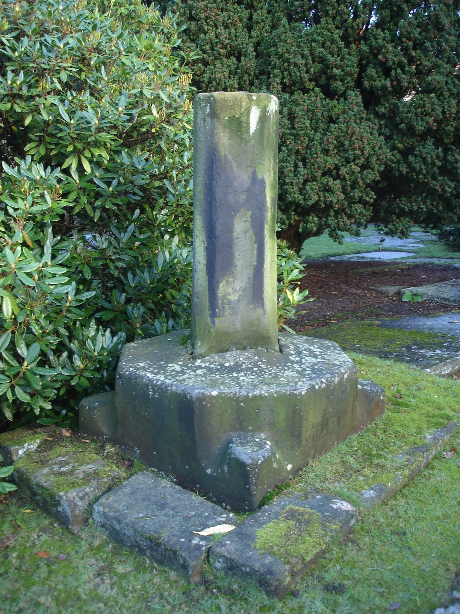 Medieval cross, St Mary's churchyard, Nether Alderley